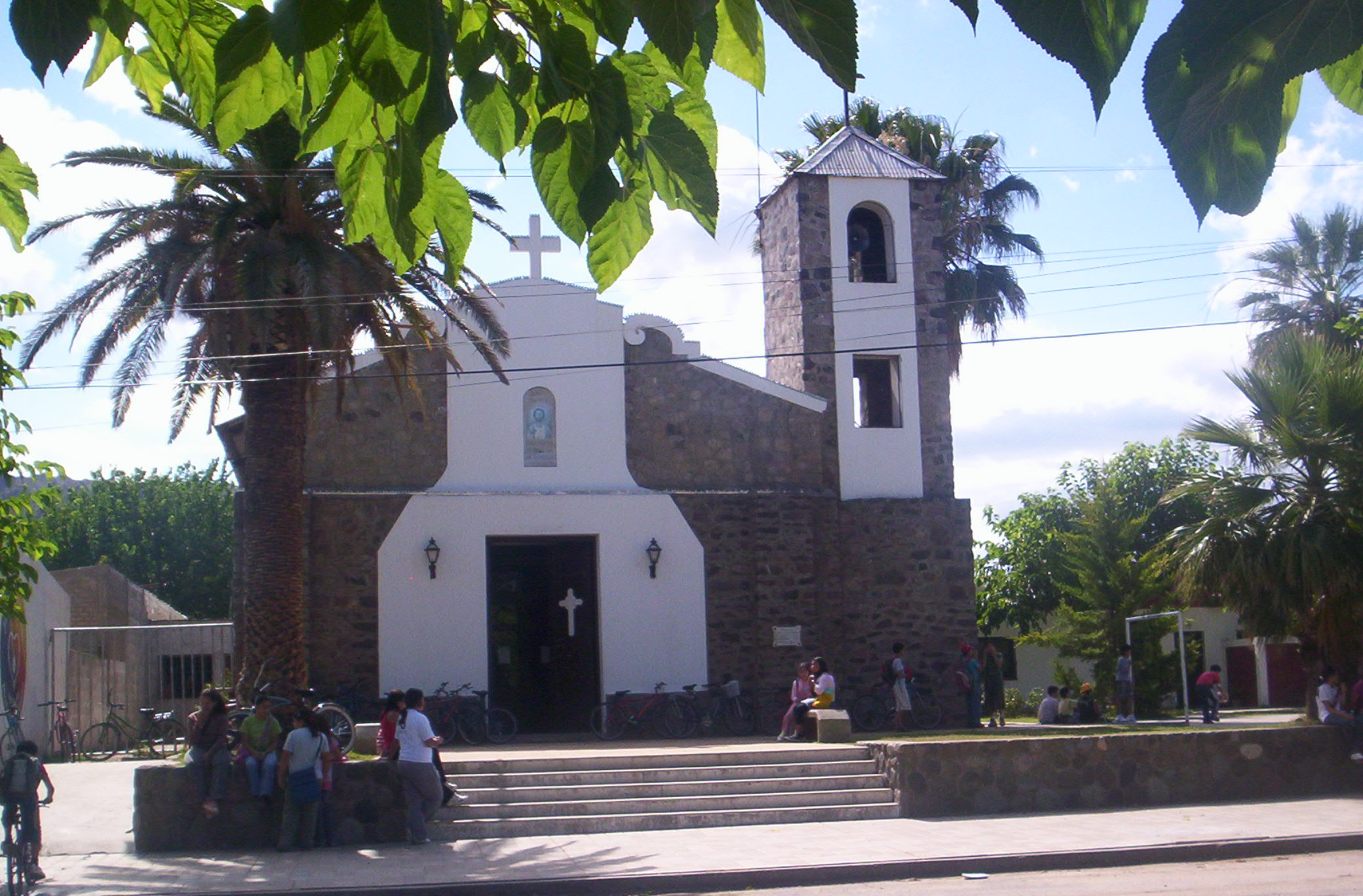 View the church of San Agustí at the Villa San Agustin in the Valle Fertil department, San Juan province, Argentine